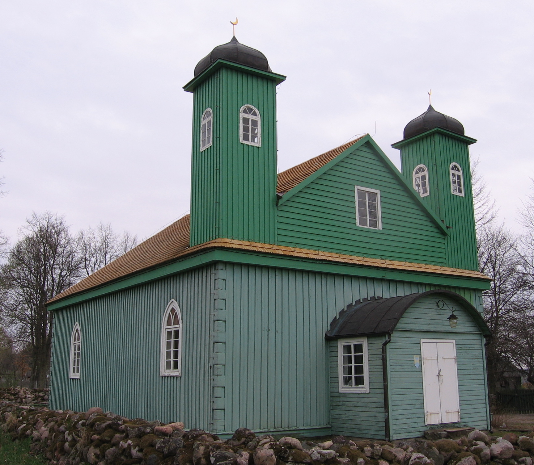 A wooden Tatar mosque in the village of Kruszyniany, north-east Poland